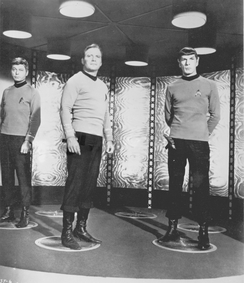 A publicity Photo of McCoy, Kirk and Spock in the transporter room. 20.32⨉25.4cm